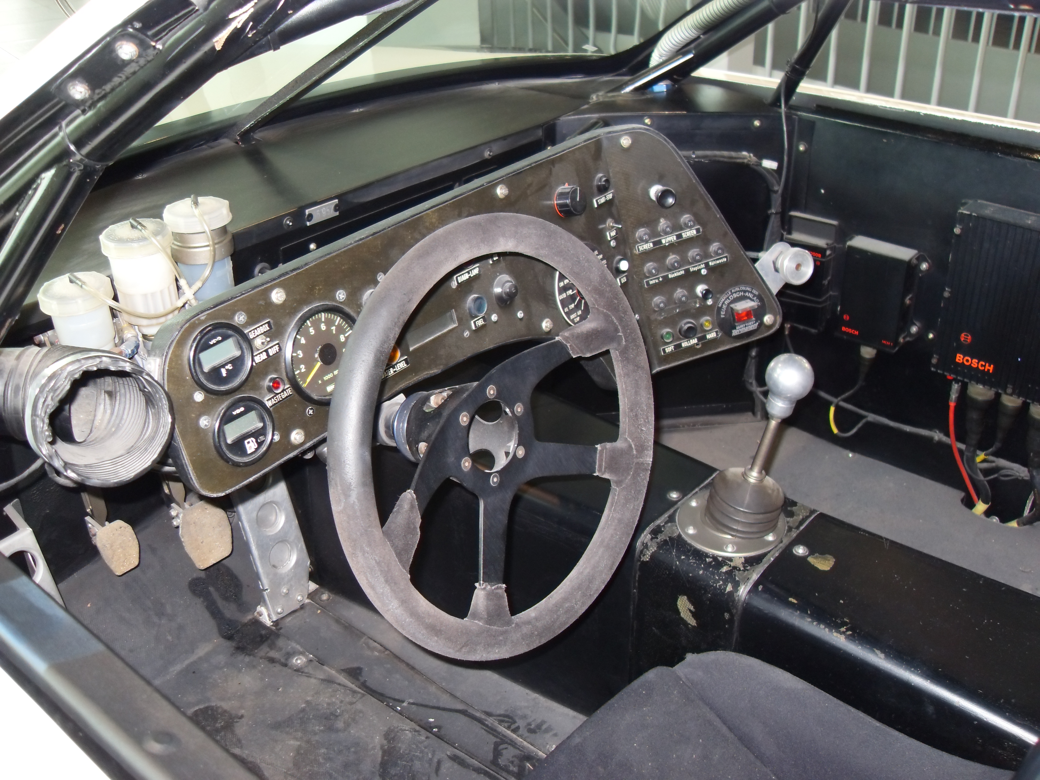 Cockpit of a Audi 90 quattro IMSA GTO